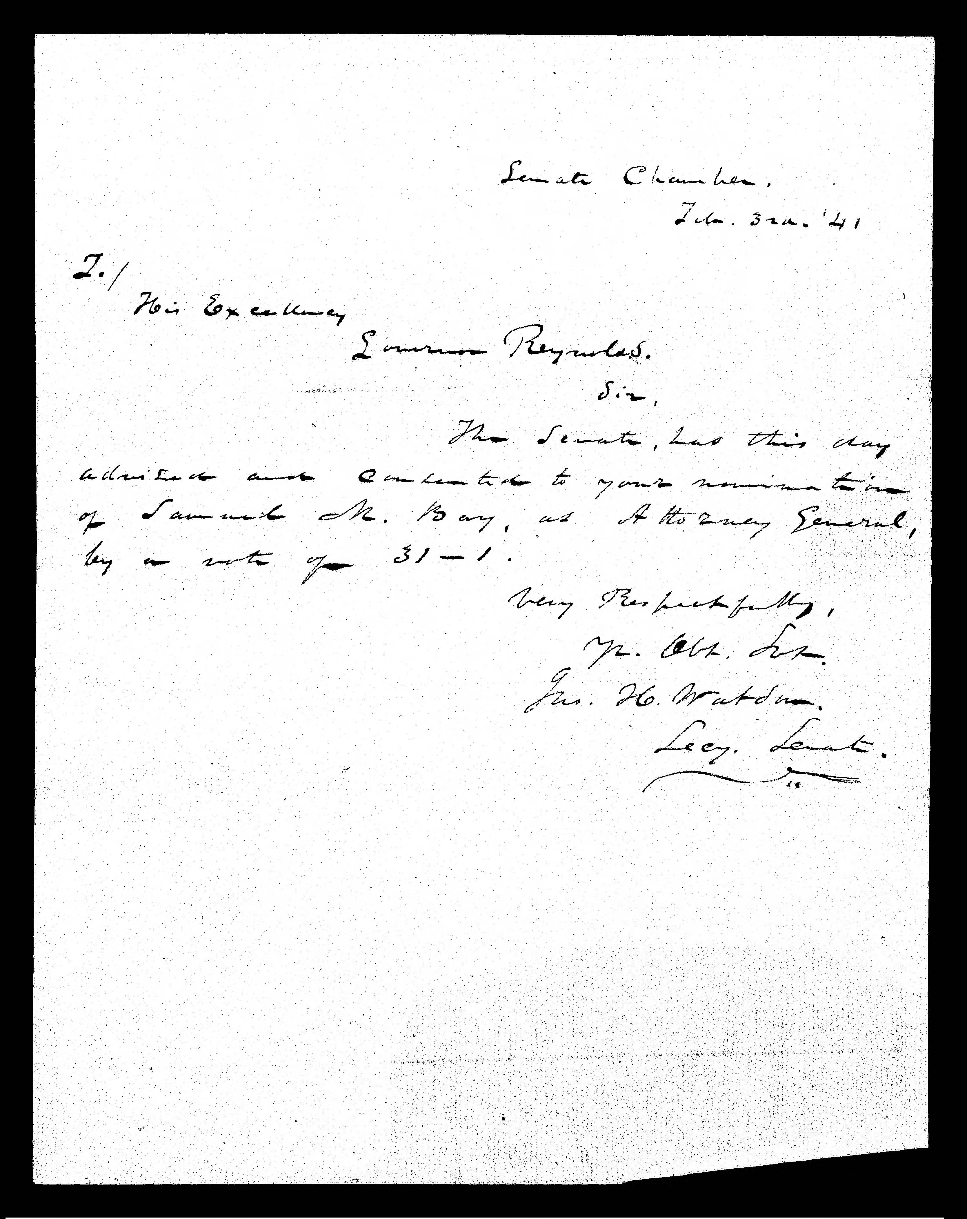 Miscellaneous Missouri: James H. Waldon, Jefferson City, Cole County; senate election of Samuel Mansfield Bay as attorney general